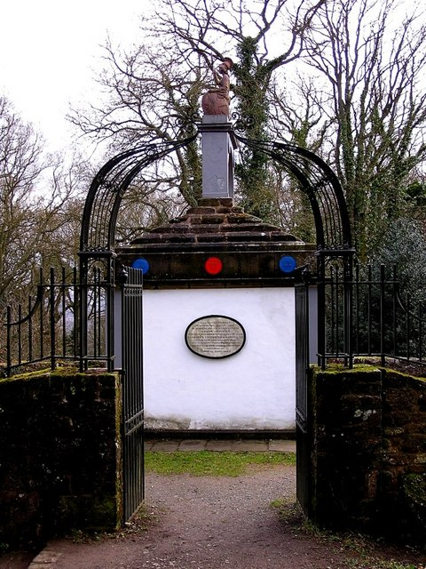 Naval Temple, The Kymin in Monmouthshire Dedicated to Elizabeth Boscawen, the wife of Henry Somerset 5th Duke of Beaufort; and daughter of Admiral Edward Boscawen[1] The square Naval Temple has round plaques or medallions, four on each face, for each Admiral and the victory with which he was most closely associated and its date. The named Admirals are: Vice Admiral Charles Thompson, Rear Admiral Adam Duncan, Vice Admiral Edward Boscawen, Vice Admiral Sir Samuel Hood, Admiral Howe, Admiral John Warren, Admiral John Gell (was retired locally near Crickhowell when this was built, Admiral Lord Nelson, Admiral of the Fleet John Jervis, Vice Admiral George Rodney, Admiral Hawke who was also First Lord of the Admiralty, Vice Admiral Sir Alexander Hood, Vice-Admiral William Cornwallis, Admiral Sir Peter Parker, Admiral George Elphinstone, Admiral Andrew Mitchell See Wikipedia article